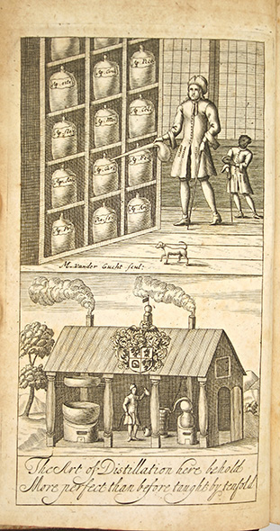 Representation of the twofold profession of William Yworth; distillation products in pharmacy (above) and chemical technology (below). Frontispiece, Yworth, Iniroitus apertus, London, 1692/1705), engraving by M. van der Gucht.